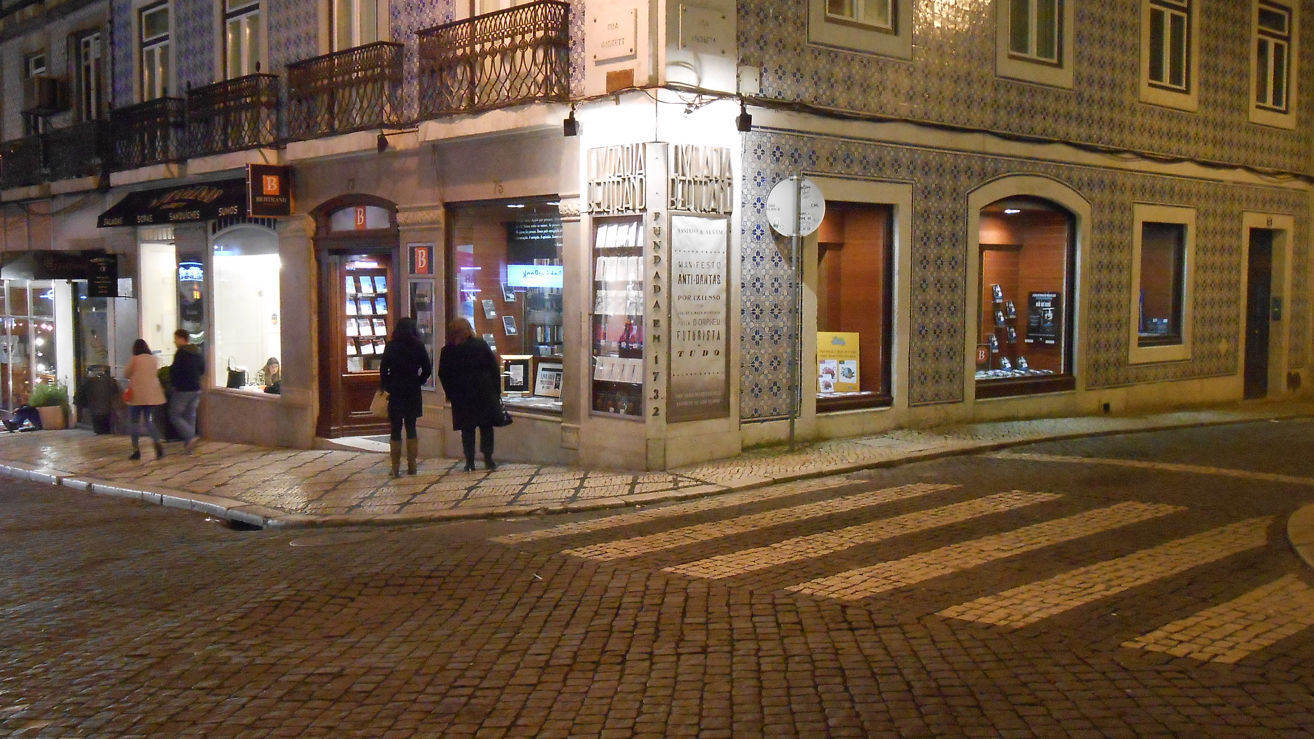 Livraria Bertrand in the Chiado quarter in Lisbon is the oldest existing bookshop in the world.